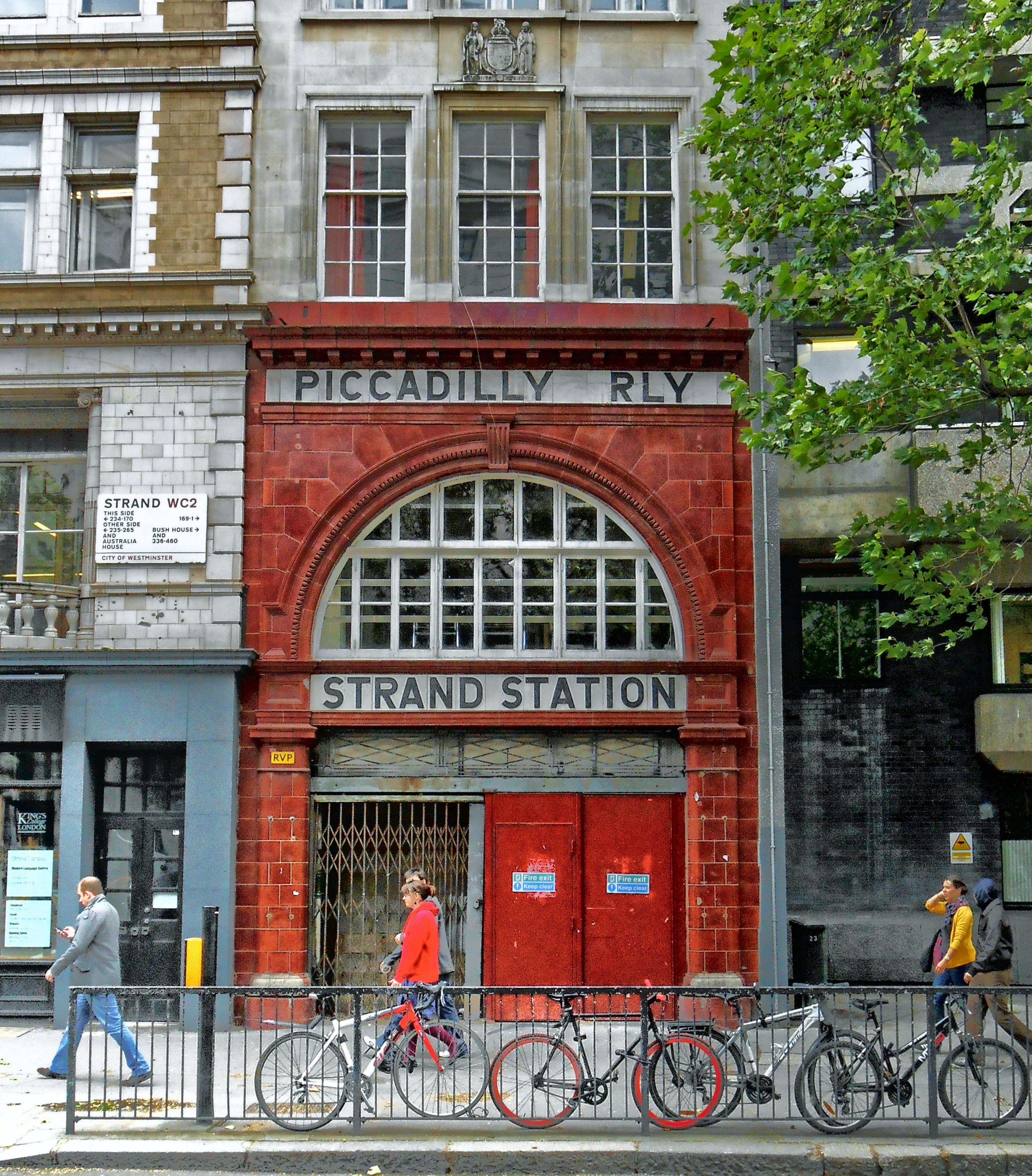 A disused tube station on Strand in central London. Open from 1907-1994, it was known as Aldwych for most of that time but originally was named Strand.